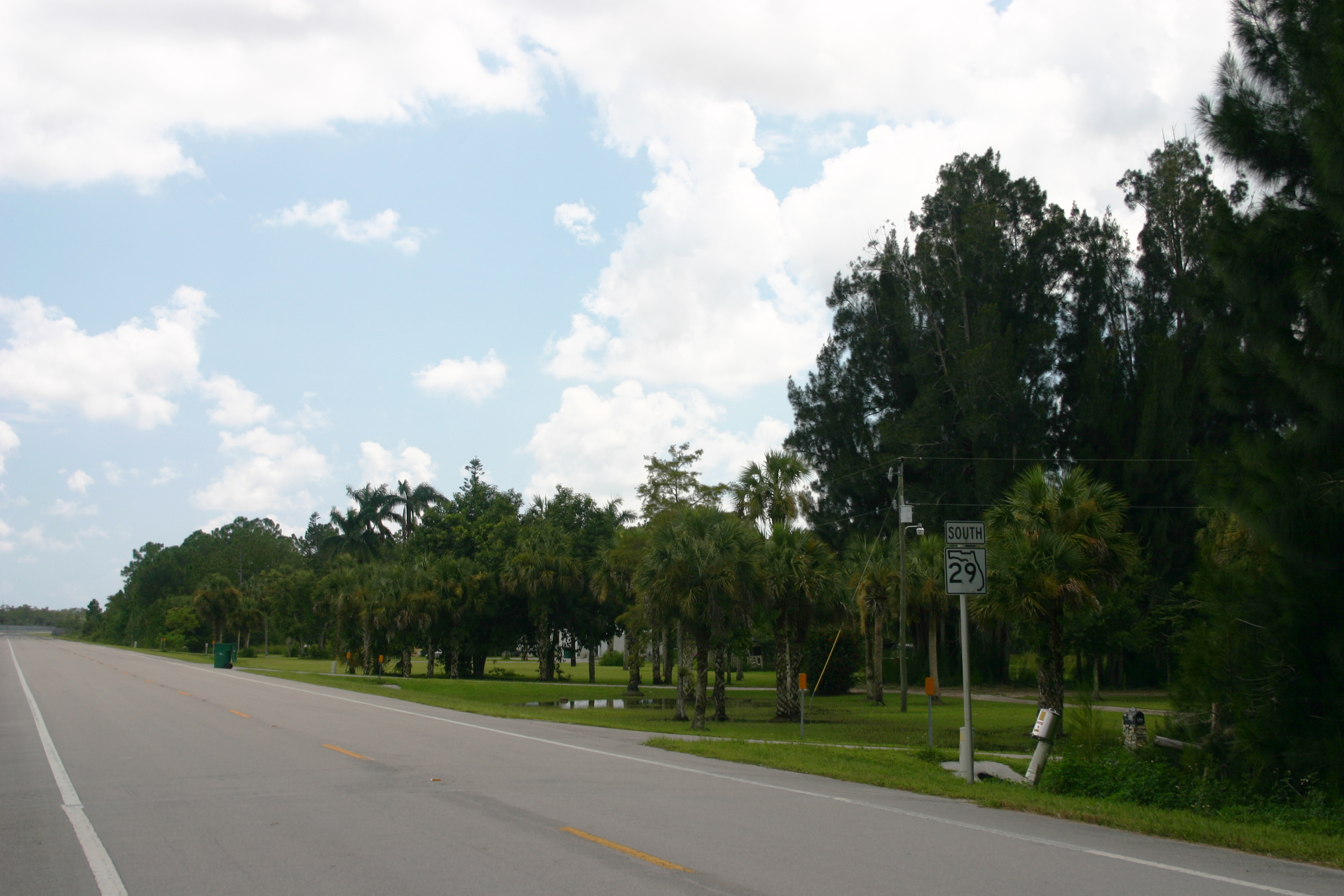 Looking south down Florida State Road 29 in the small hamlet of Jerome, located in rural Collier County, Florida.